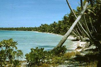 Photo 1 of 2 showing the shoreline of Orona (formerly Hull) Island lagoon (1965), Phoenix Islands, Kiribati. Original field notes: See the 2000 photo of the same location for comparison.